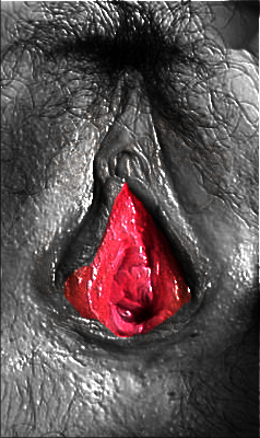 Vulvae in black and white, with the vestibule coloured